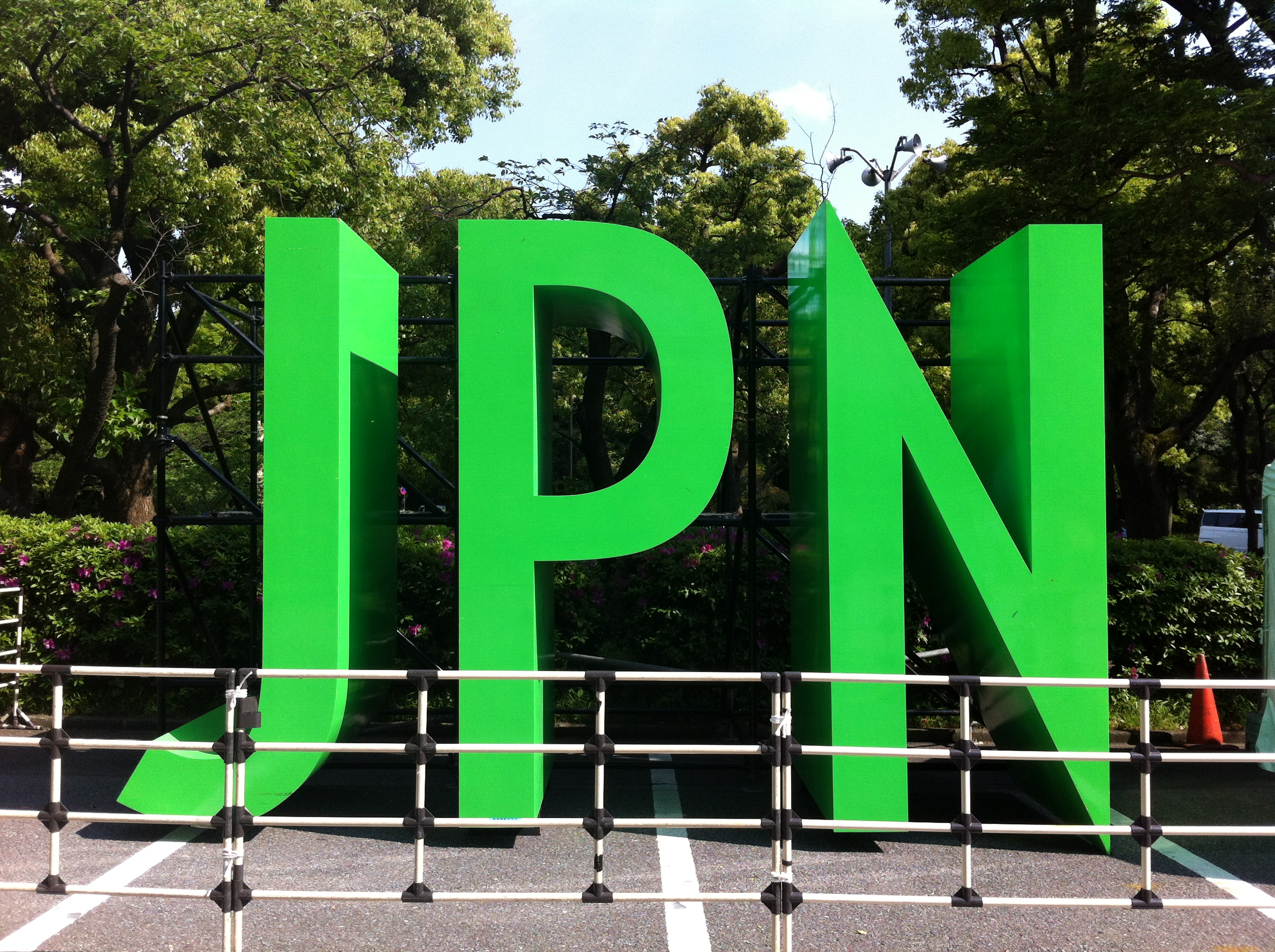 Perfume JPN 3rd album tour logo.